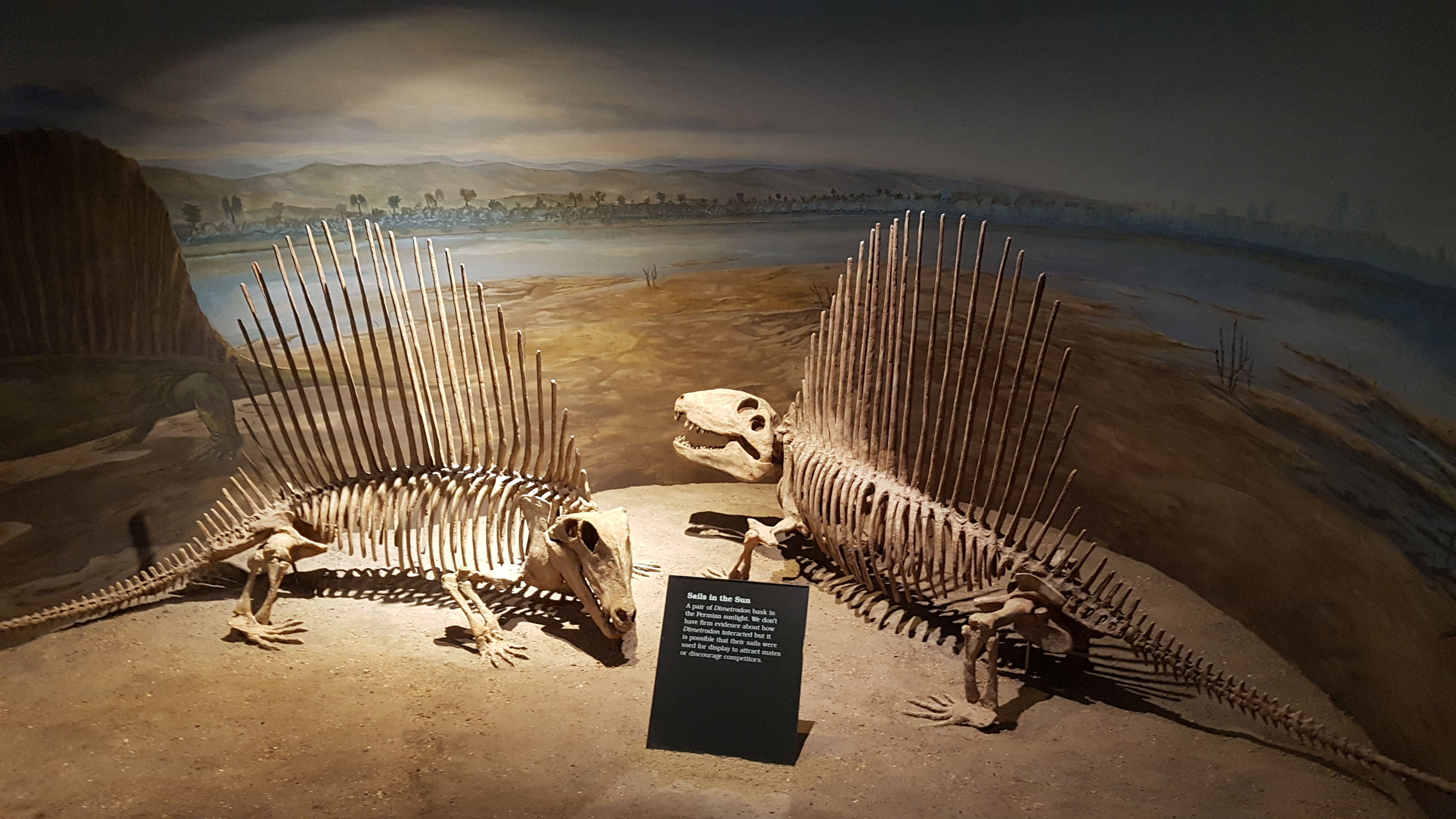 royaltyrell -dinosaurs - 33511849206